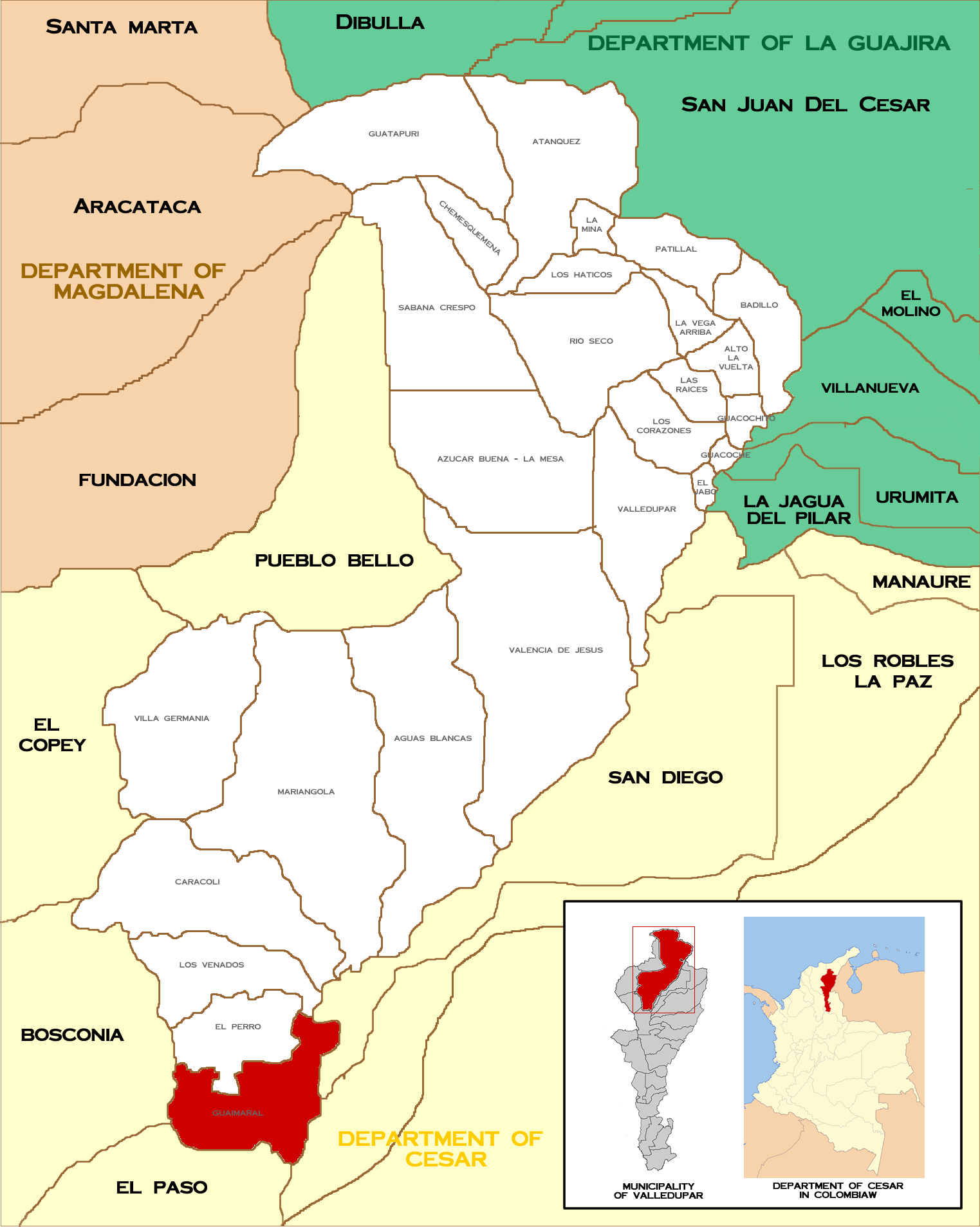 Map of Corregimientos of Valledupar, Guaimaral